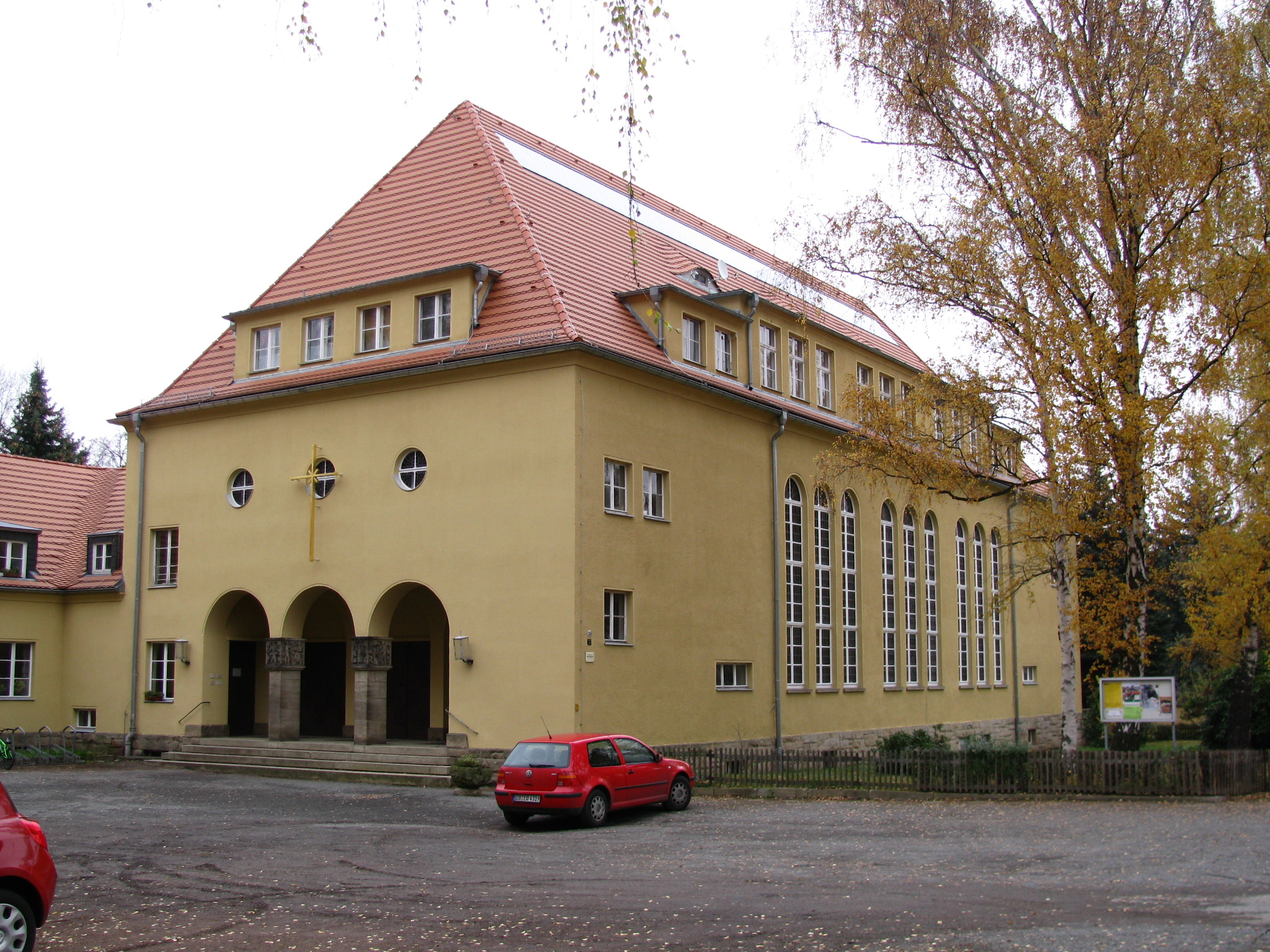 The Hoffnungskirche (Church of Hope) in Dresden-Löbtau